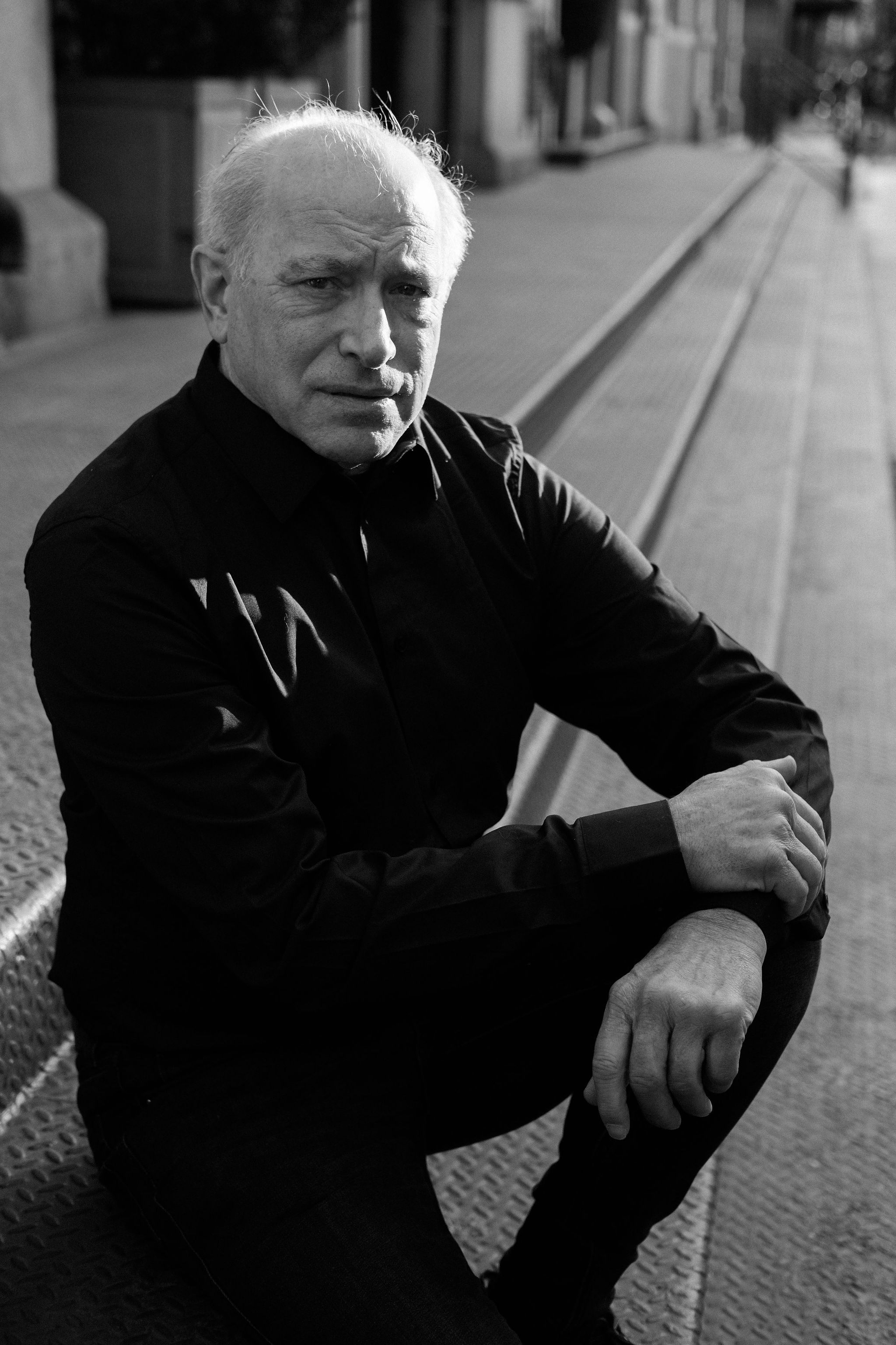 Alan Michael Braufman posed sitting on steps